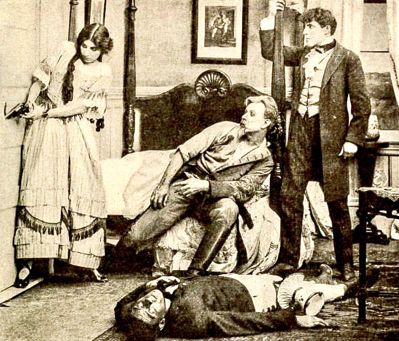 Film still illustrating short story by Henry Albert Phillips providing plot details of the 1912 Edison Studios' New York production For the Cause of the South, published in The Motion Picture Story Magazine, January 1912, p. 111; actors (from left) are Laura Sawyer, Charles Stanton Ogle, Guy Hedlund, and an unidentified performer lying on floor. "'I Had The Pistol Resting On A Splintered Panel'"